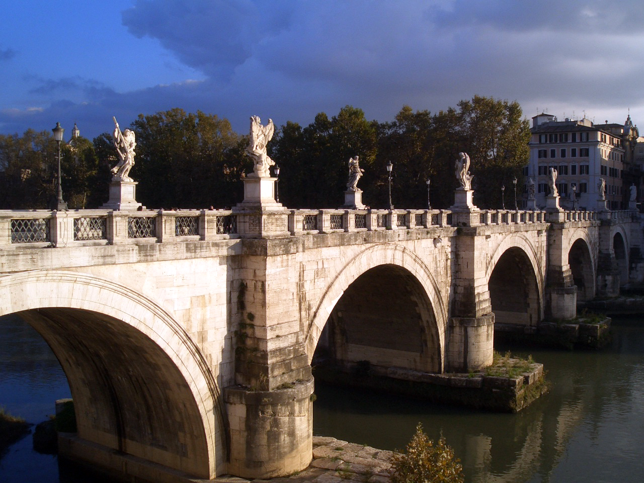 Bridge of St. Angelo, Rome